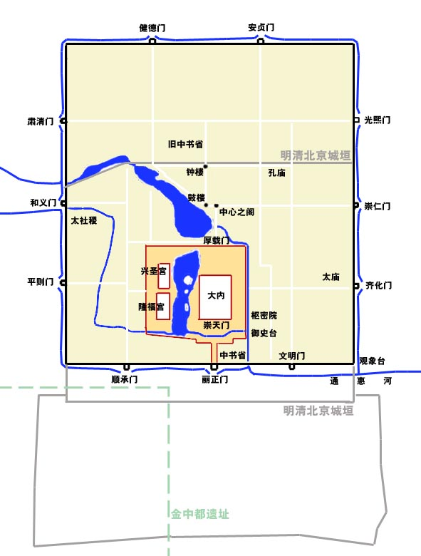 Map of Khanbaliq, the ancient city of Beijing in Yuan Dynasty, compared with capital in Ming and Qing Dynasty